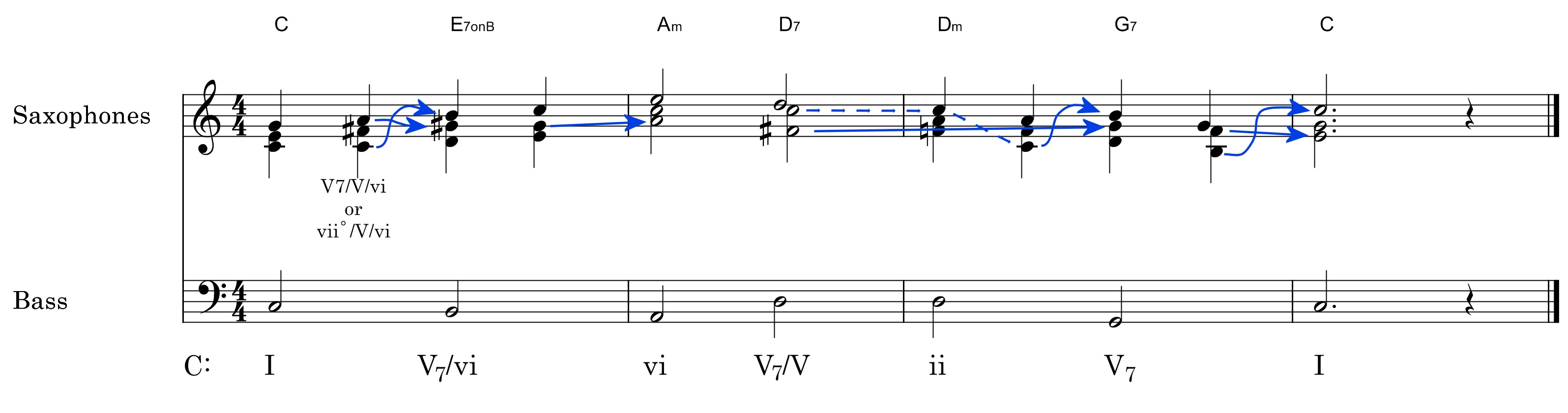 An explanation of musical transference in three voice sectional harmony.